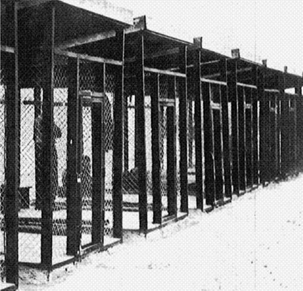 The security cages at the United States Army Disciplinary Training Center in Pisa, Italy, where the poet Ezra Pound was held for three weeks in 1945 after being arrested for treason.